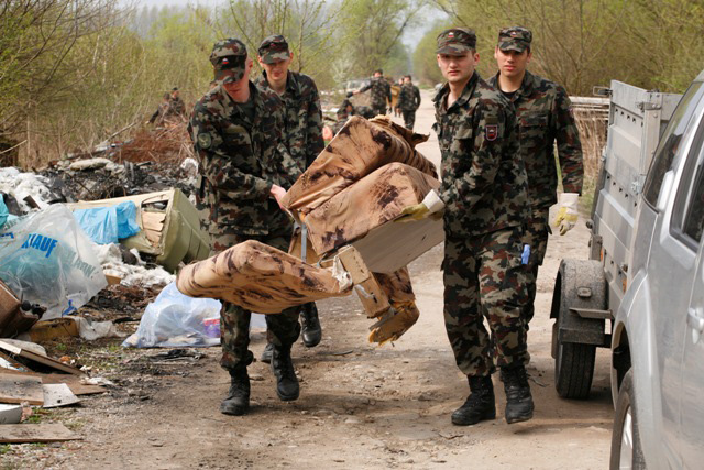 Let's Do It! Slovenia 2010